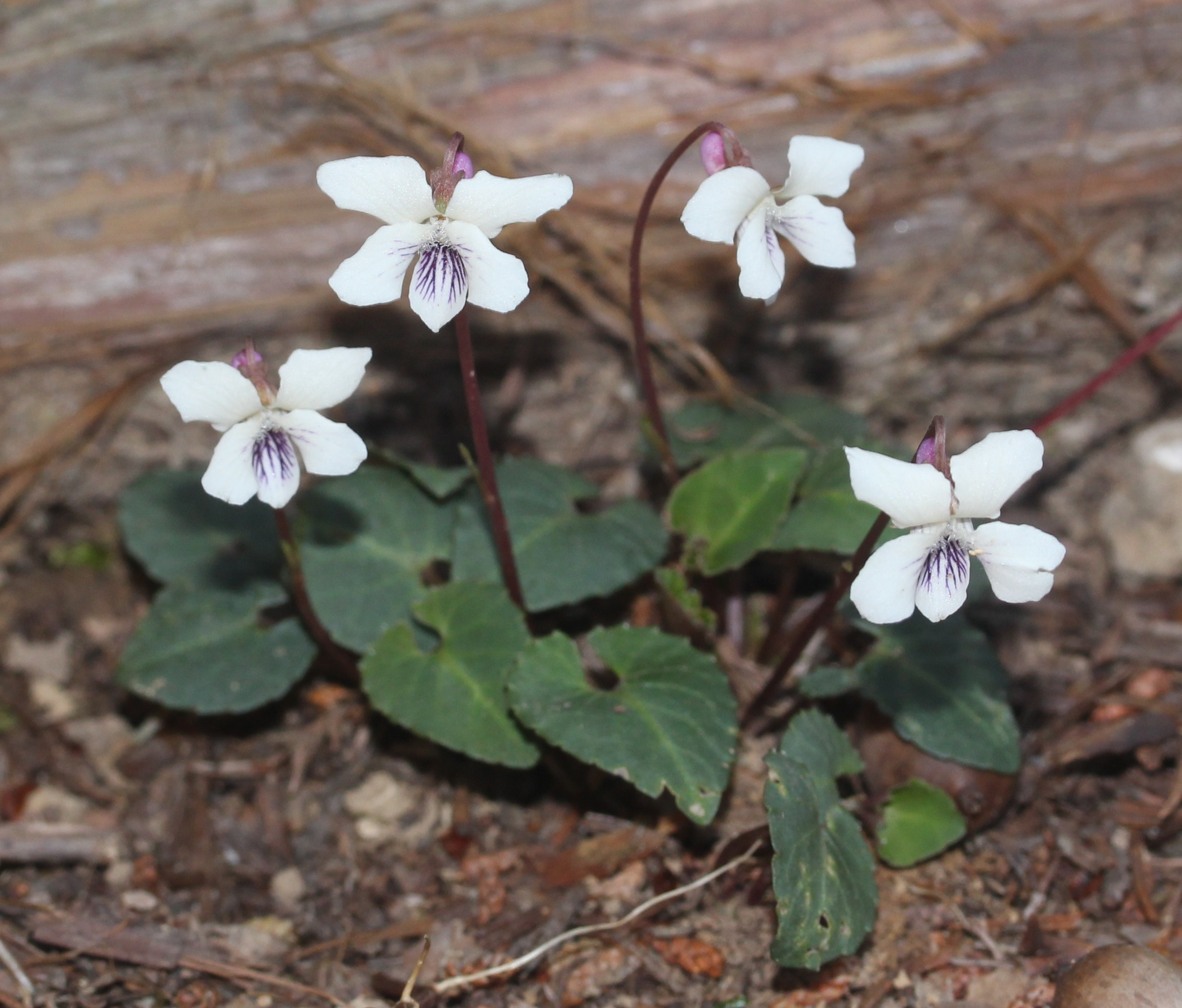 Viola sieboldii in Mount Tengura, Owase, Mie prefecture, Japan.